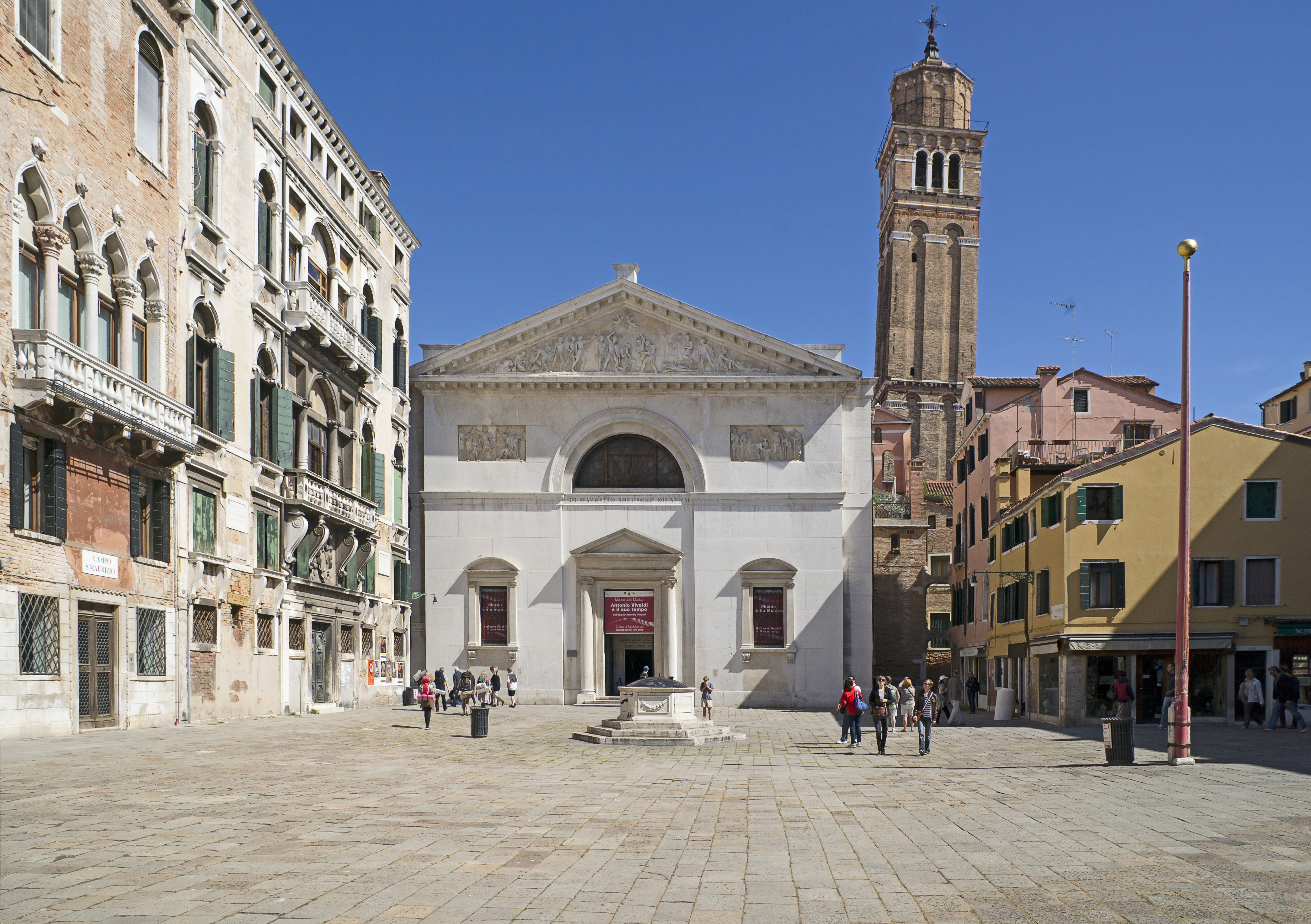 Church and campo San Maurizio today Museo della musica in Venice.